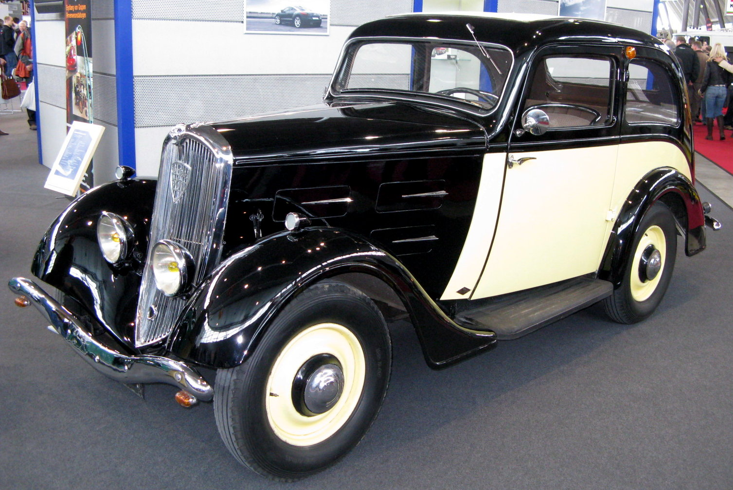 1936 Peugeot 201 Coupe DL